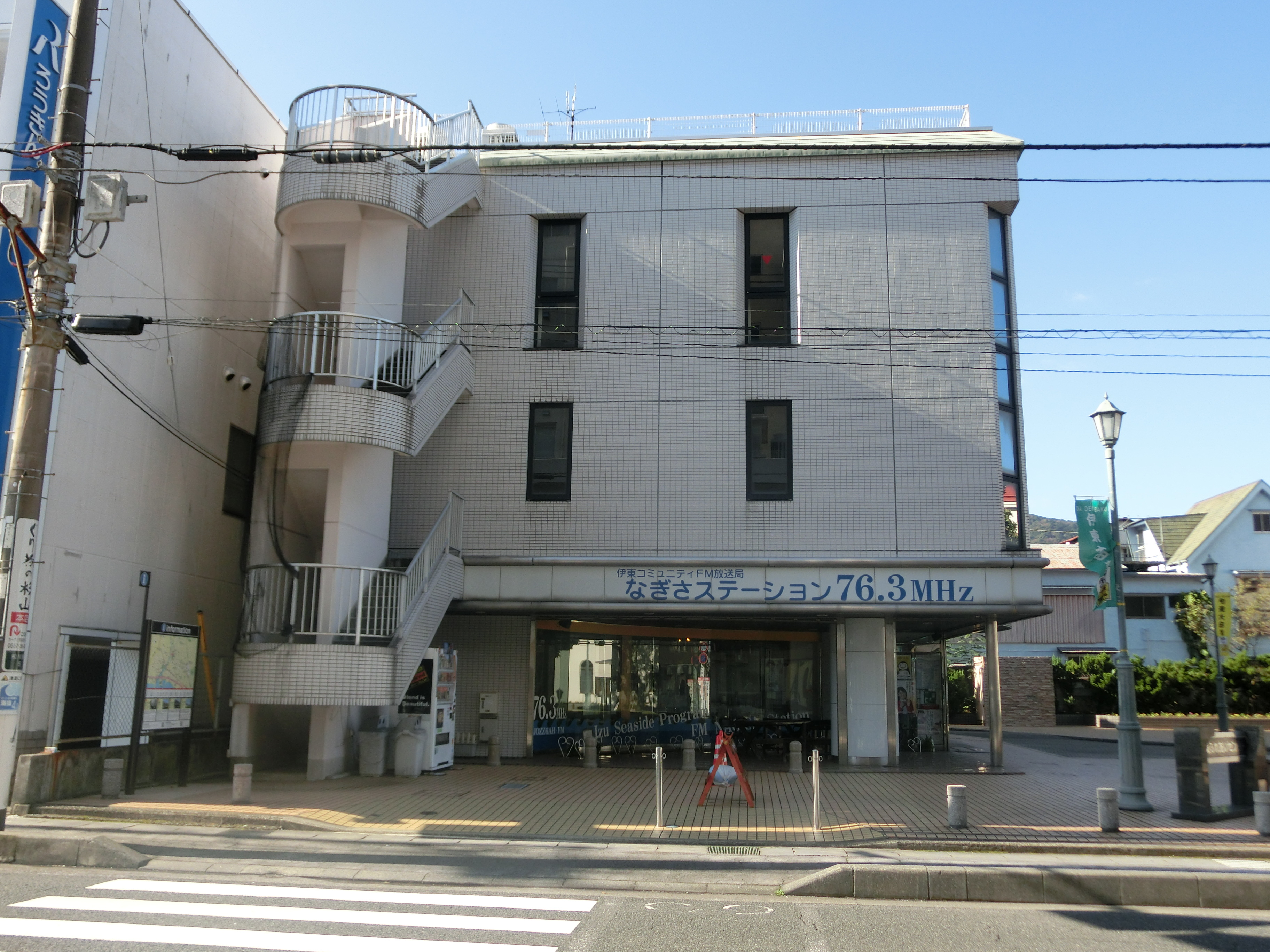 FM Ito Nagisa Station